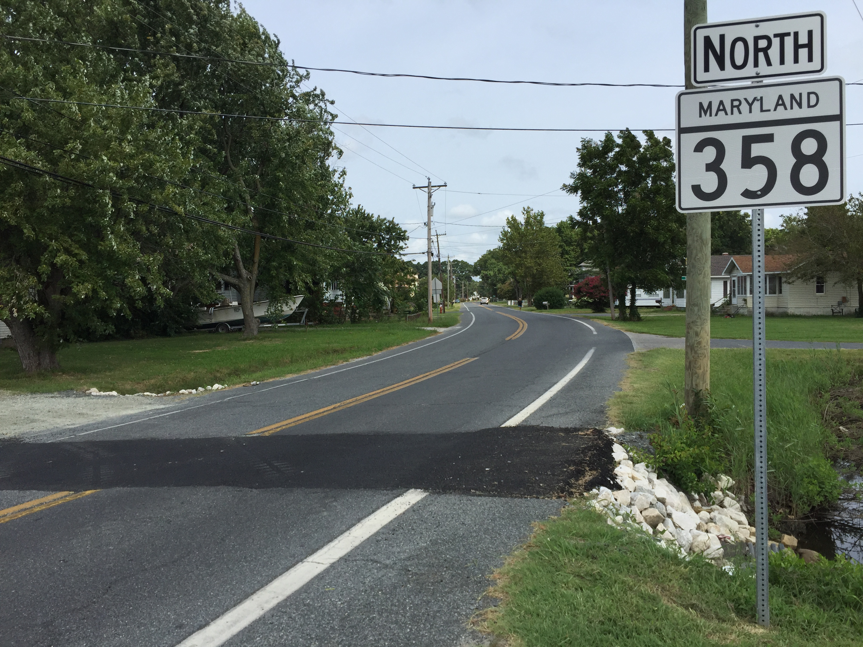 View north along Maryland State Route 358 (Jacksonville Road) at Mill Lane in Crisfield, Somerset County, Maryland